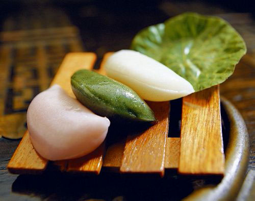 songpyeon, crescent moon rice cakes. Songpyeon is a special Chuseok eatery filled with a paste of chestnut, jujube, sesame seeds and red beans.